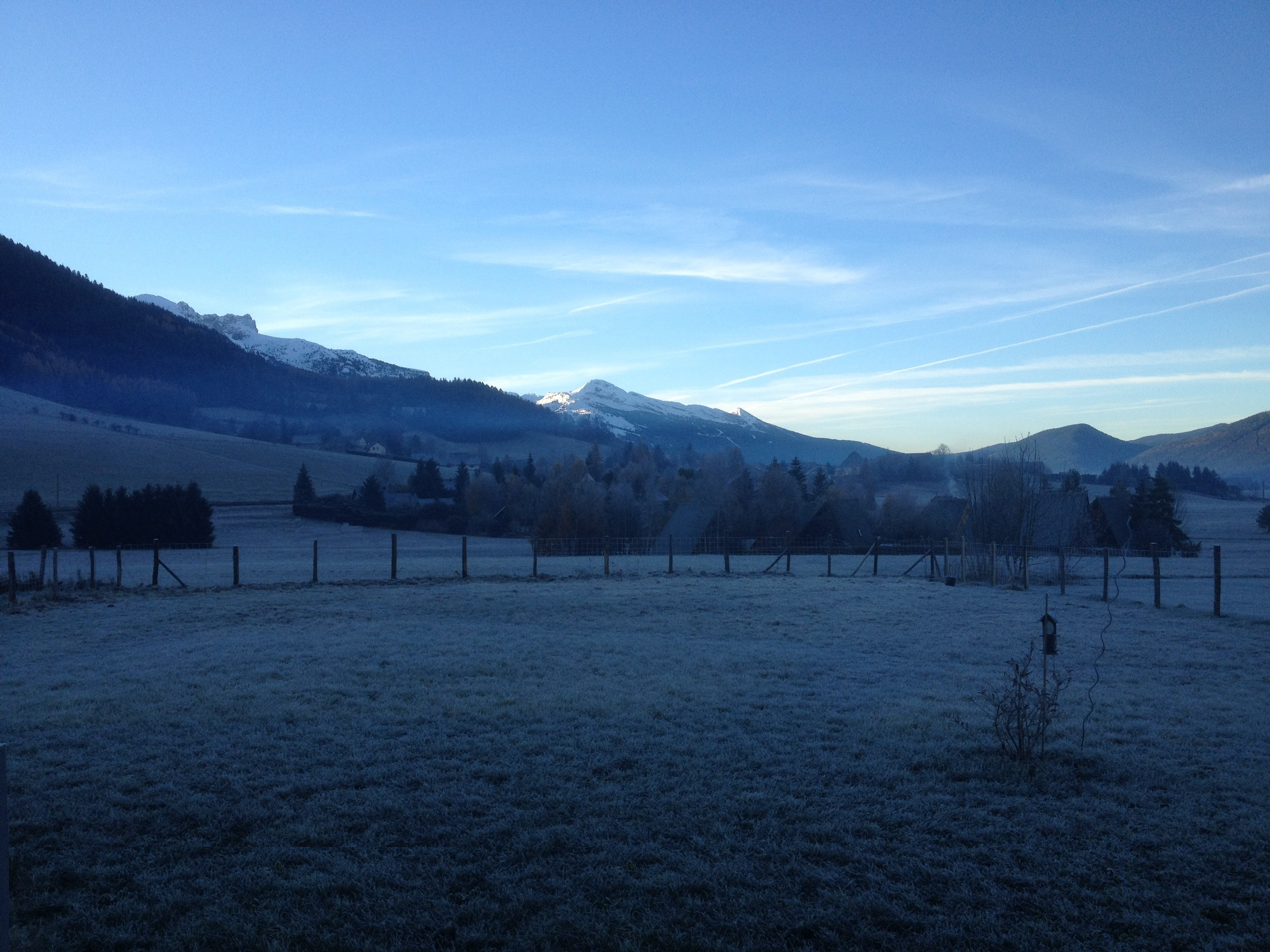 Valley with one of the mountain range.